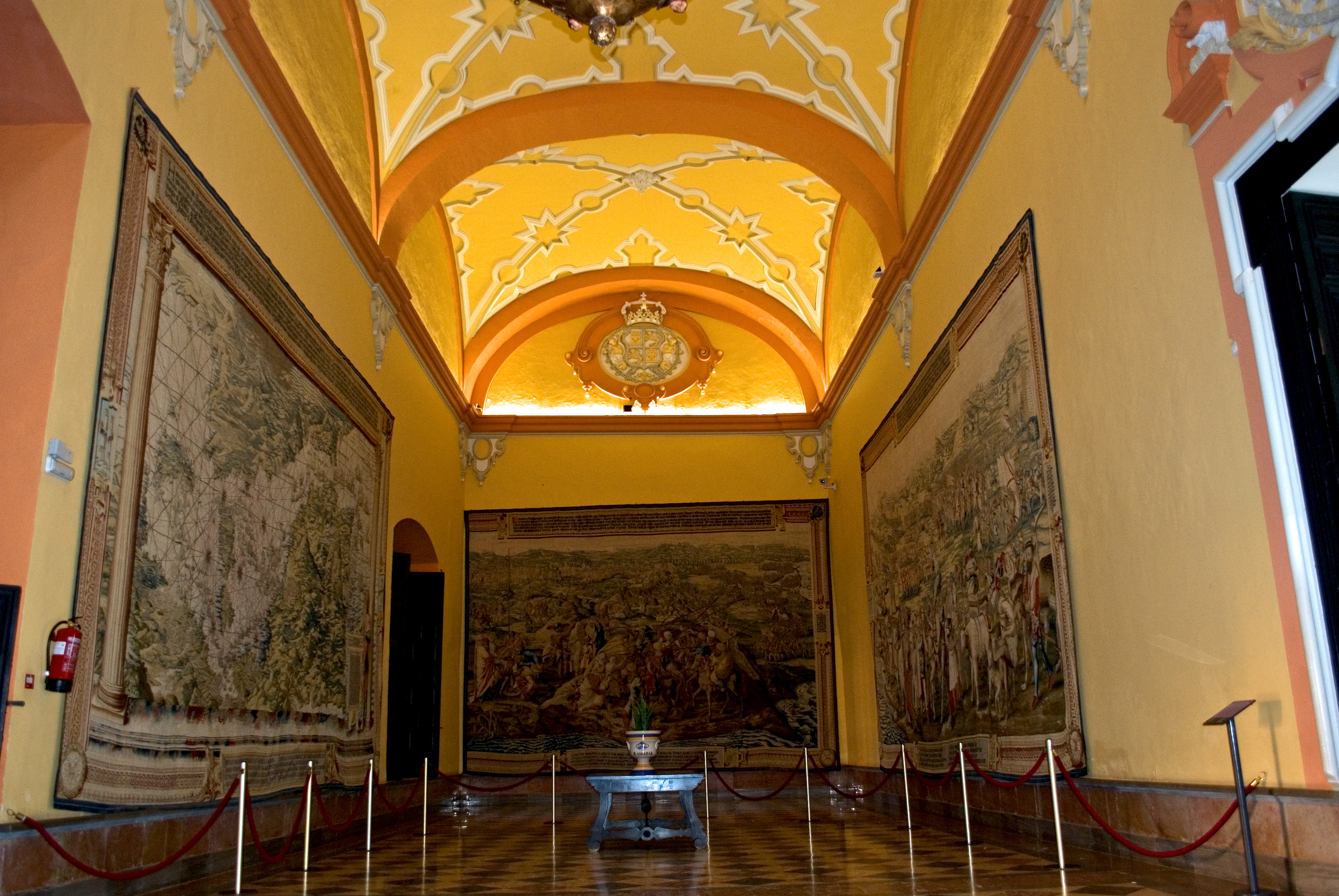 Alcázar de Sevilla